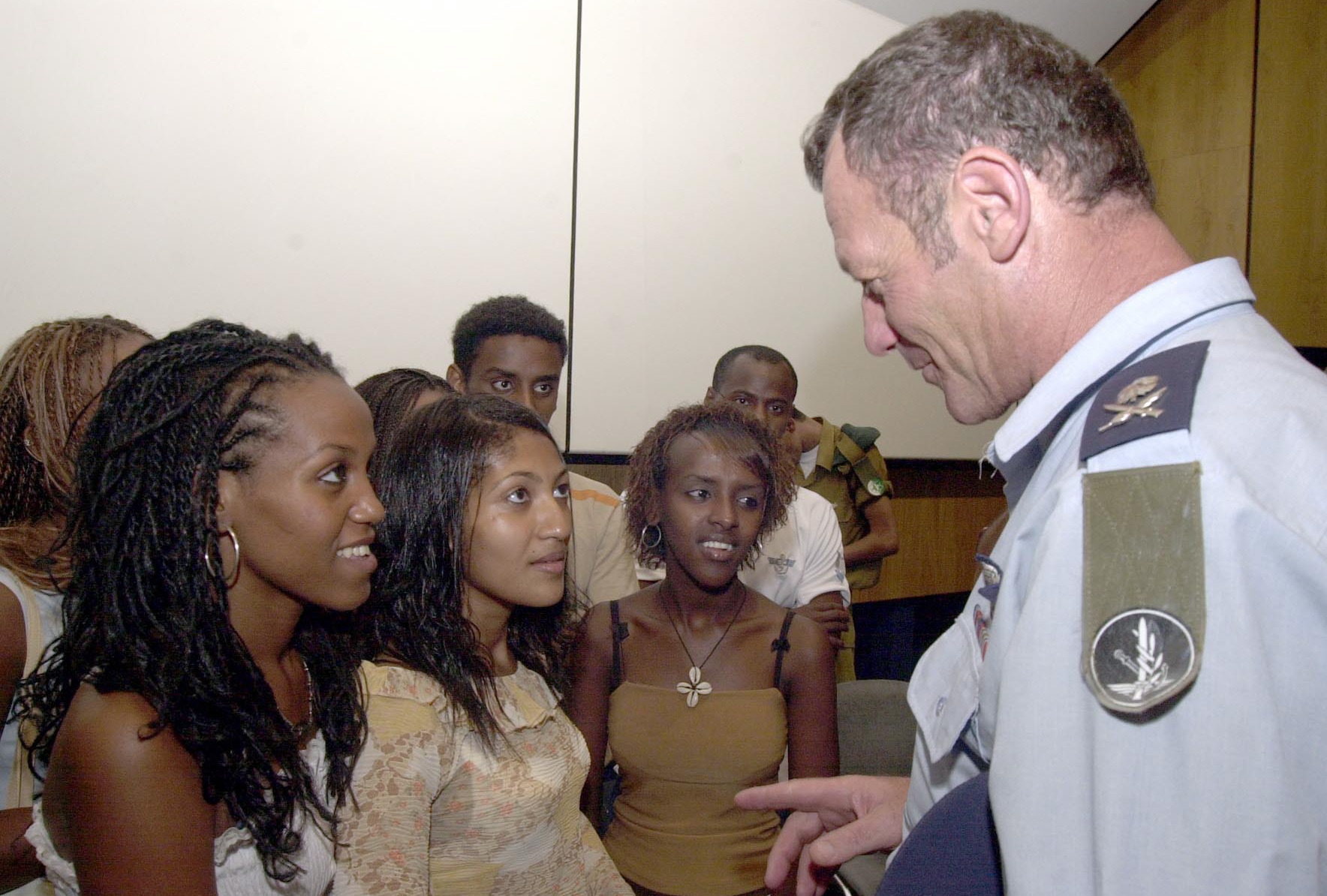 In a ceremony at the Technion University in Haifa, the Head of the Human Resources Branch of the IDF at the time, Maj. Gen. Gil Regev, gave a speech at the opening of the preparatory program comprised of 41 students from the Israeli Ethiopian community. Maj. Gen. Regev noted that the point of the program is for the youths to develop their abilities within the IDF and by extension Israeli society. At the end of the program the students will be eligible for college degrees within the academic degree program of the IDF.